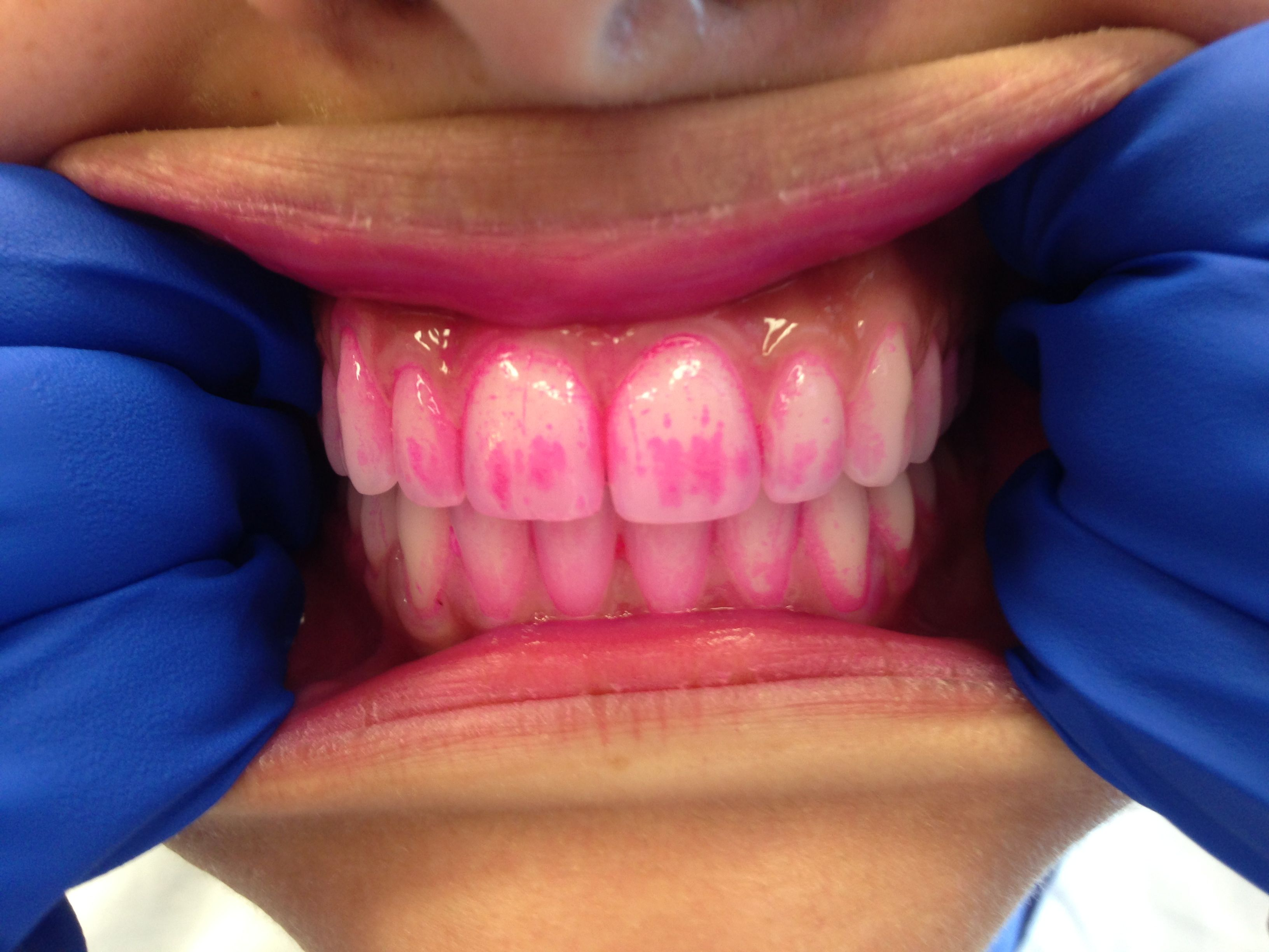 Disclosing tablets with Colgate disclosing tablets